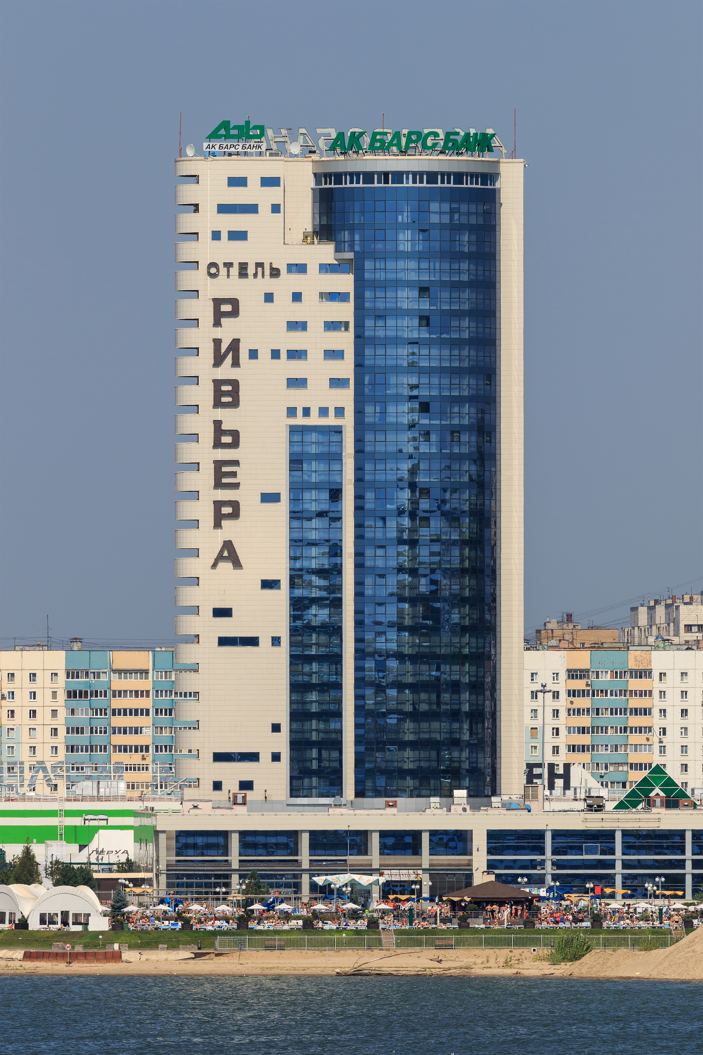 The Riviera Hotel in Kazan, Russia